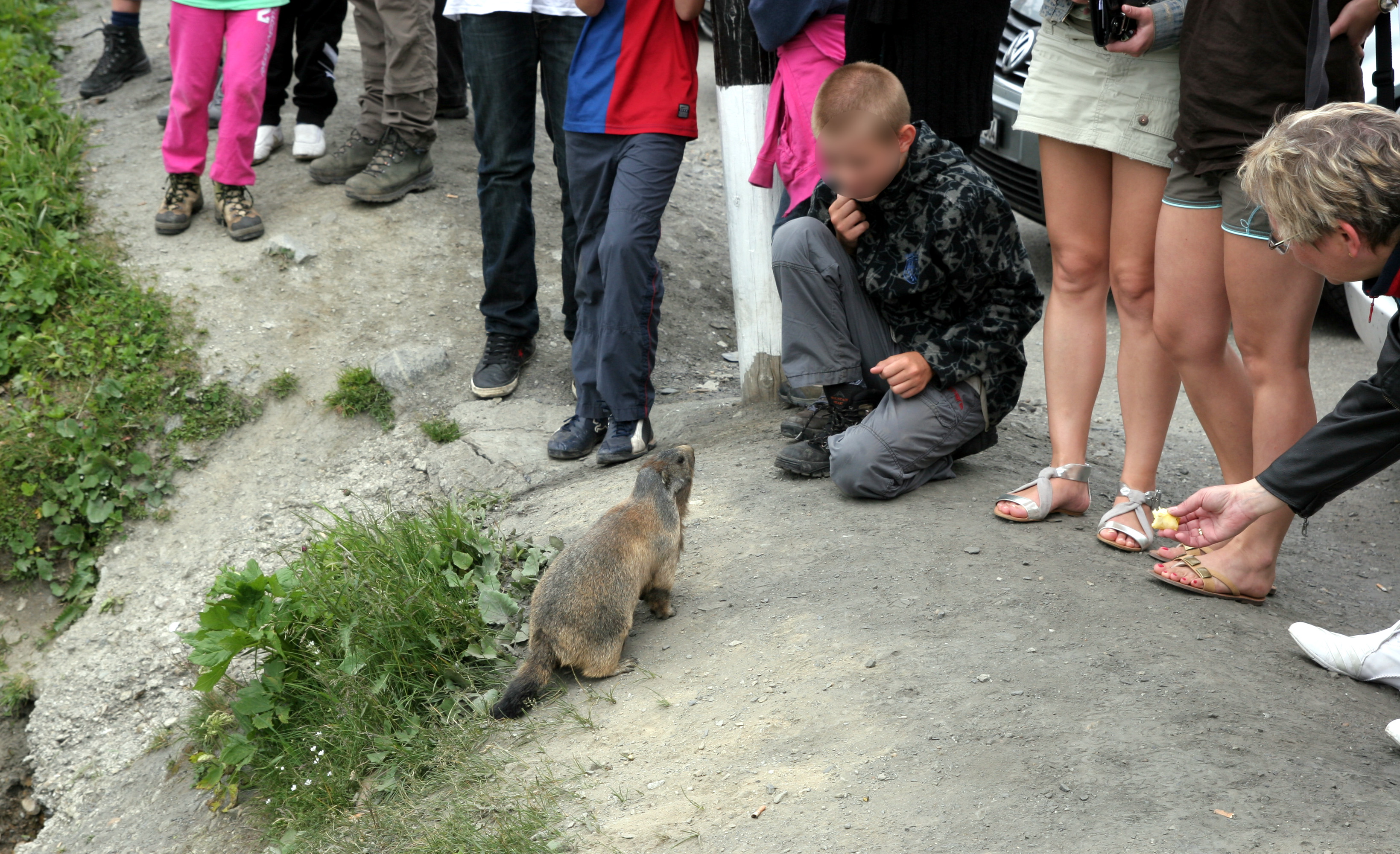 Confiding Alpine Marmot at the Furkapass, close to the Hotel Belvédère (Rhone Glacier).